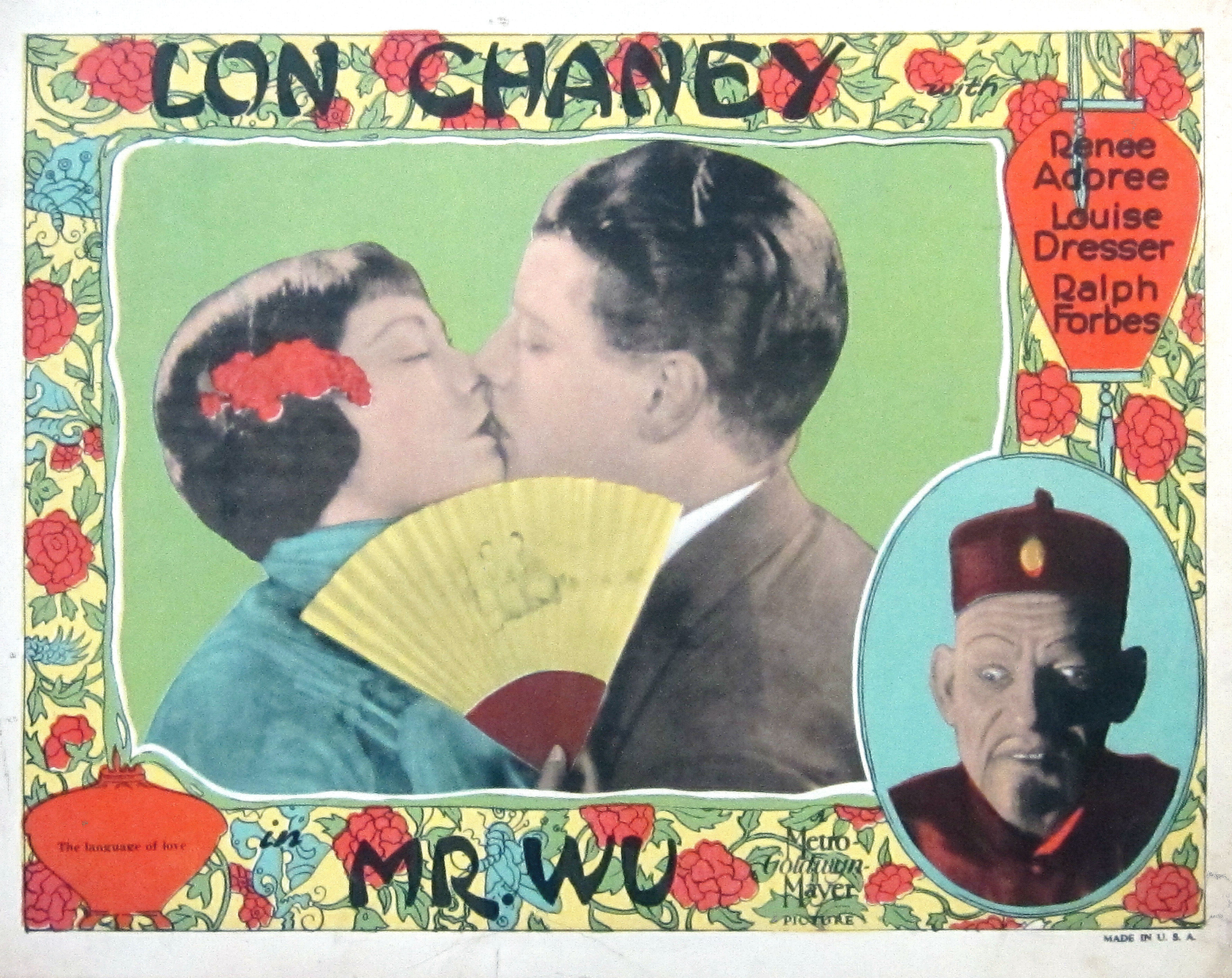 Lobby card for the American film Mr. Wu (1927).